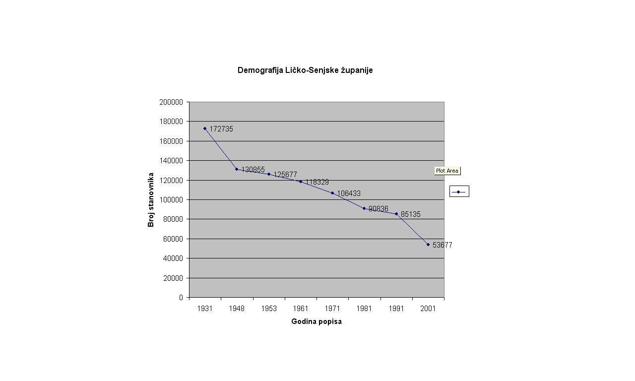 Demography of Lika Senj county ,based on Školski atlas, Alpha, Zagreb 2007., ISBN:978-953-168-254-1;page 73